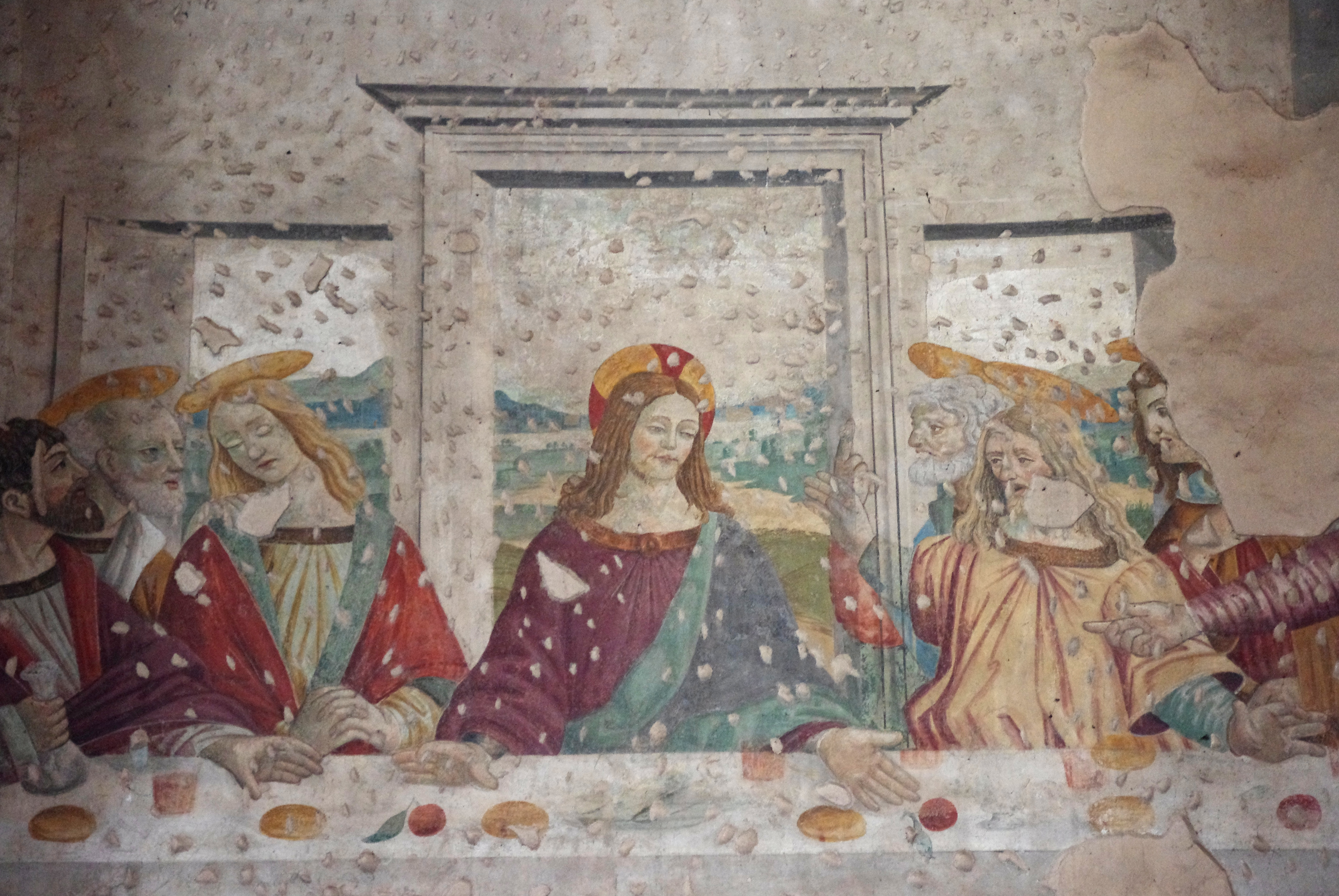 Detail of the Renaissance fresco with a naif copy of Last Supper, given to Antonio della Corna, in the Basilica di San Lorenzo Maggiore in Milan